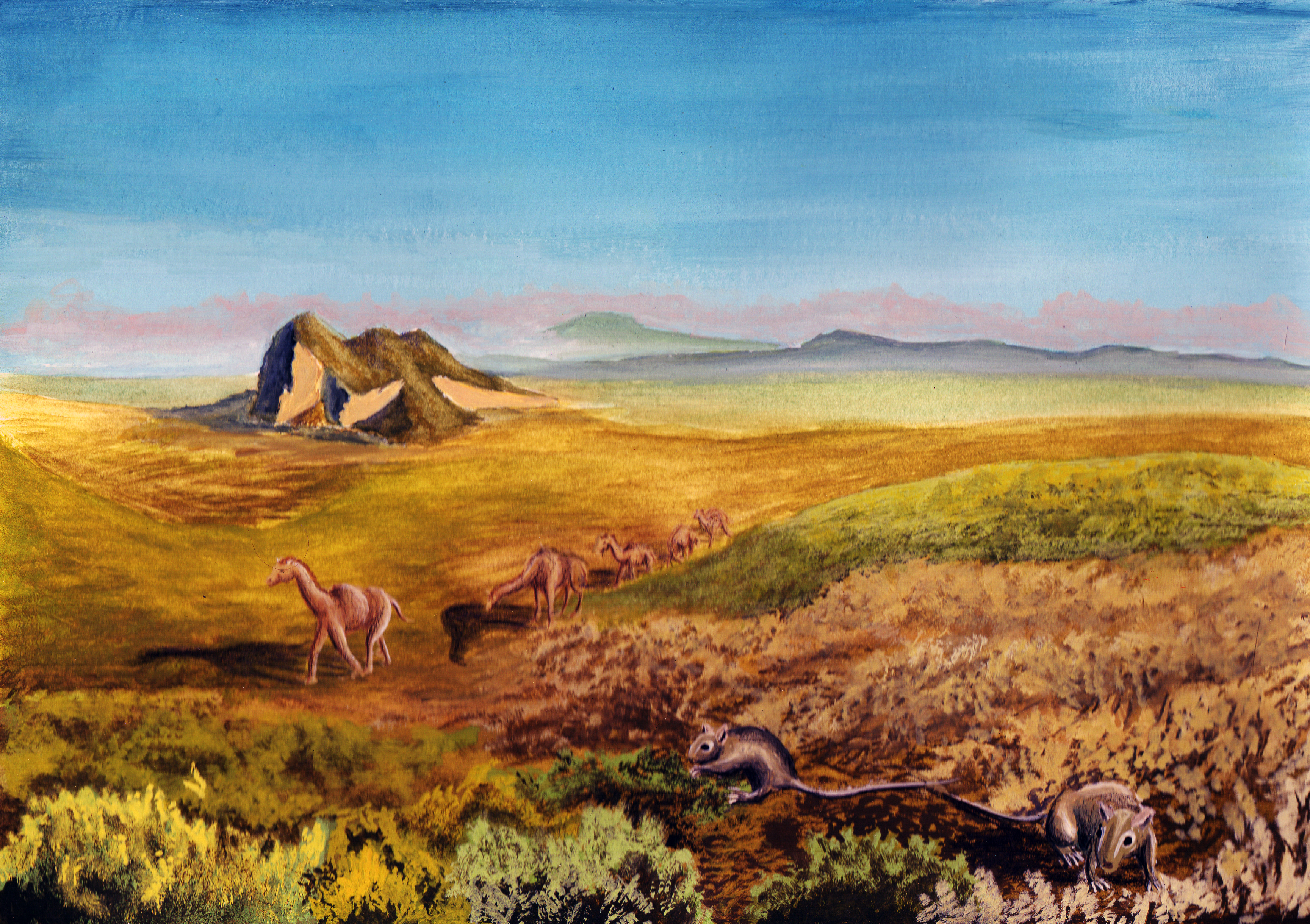 African mammals crossing the Strait of Gibraltar during the Messinian salinity crisis. The illustration depicts camelids and gerbils.